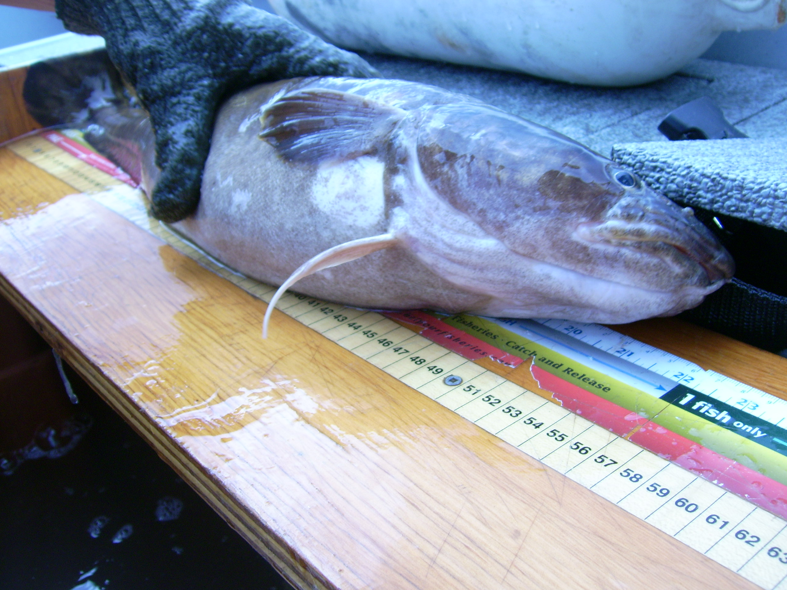 Burbot (Lota lota), Batchawana Bay, Lake Superior